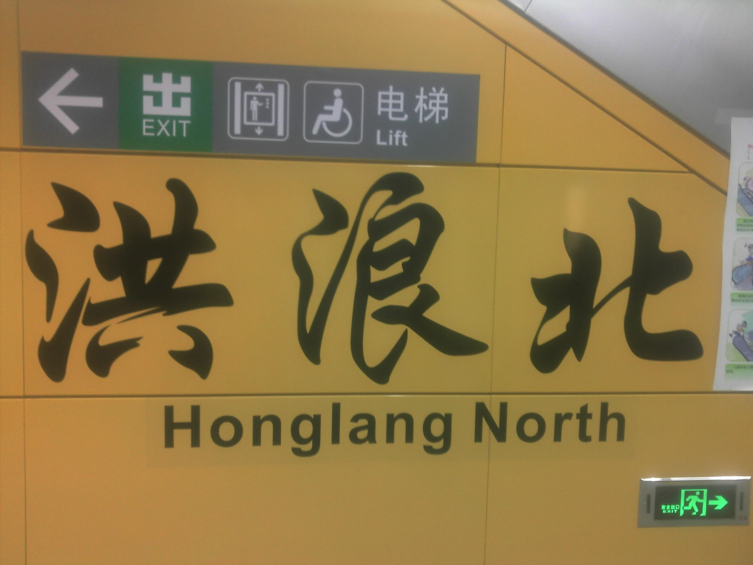 This photo was taken as Nov 19, 2011.